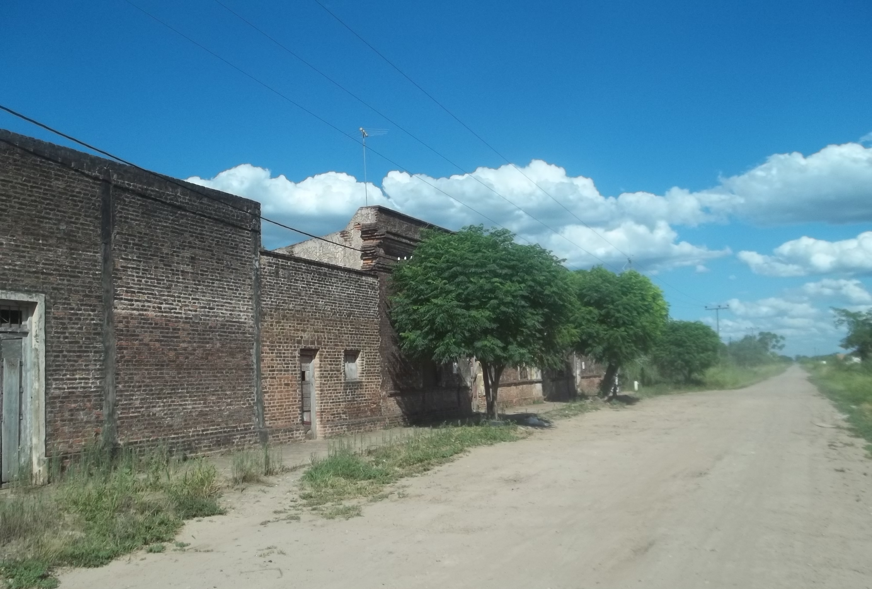 Old houses in Napalpí, Chaco Province, Argentina.